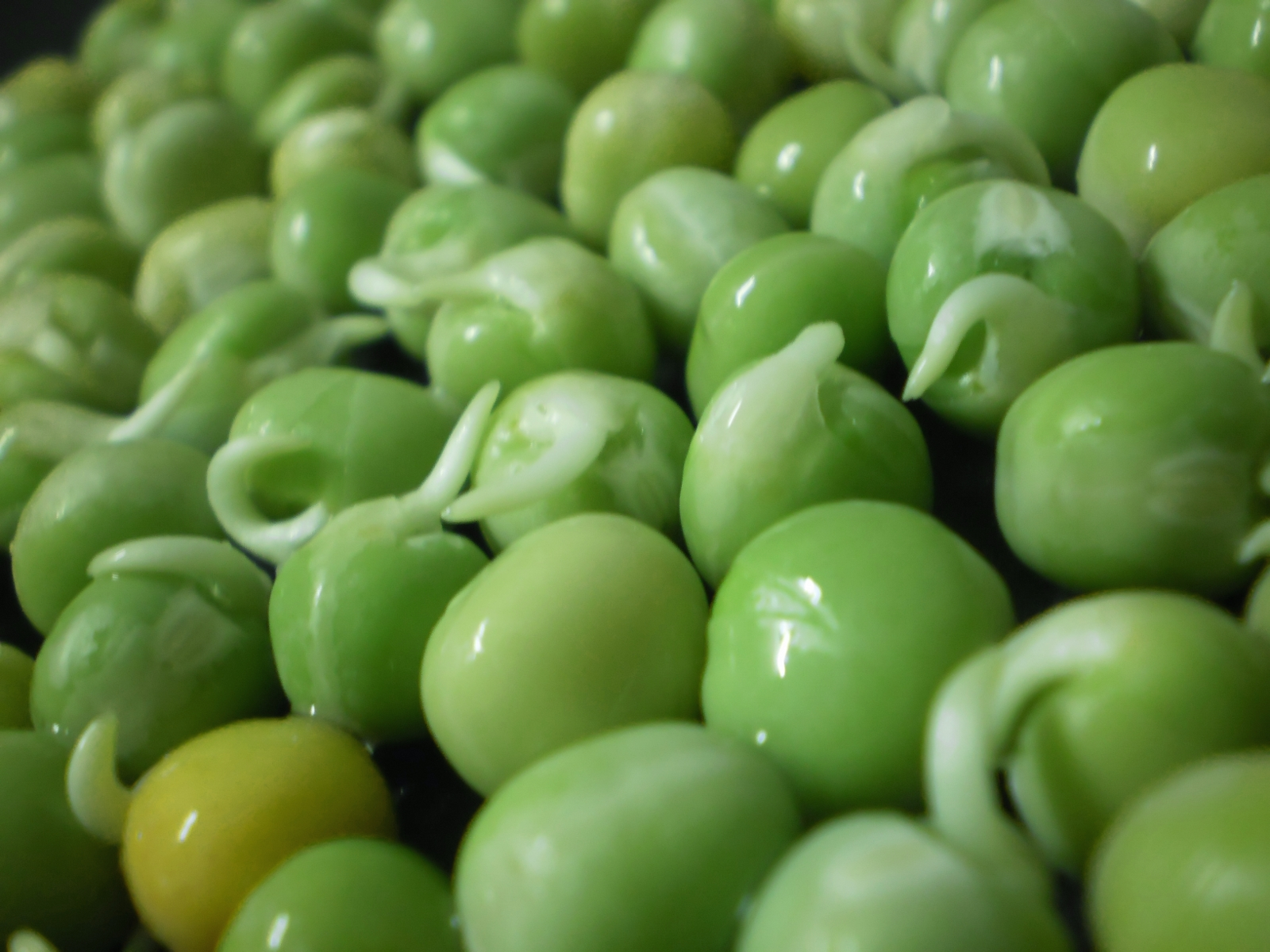 Sprouted Greenpea